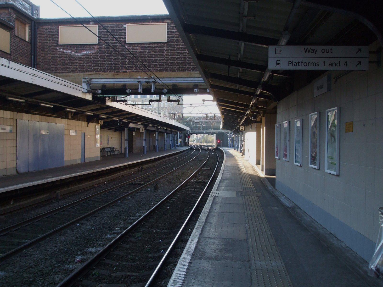 Maryland station slow platforms looking west.